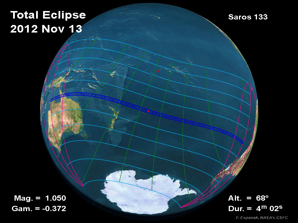 On 2012 November 13/14, a total eclipse of the Sun is visible from within a narrow corridor that traverses Earth's southern Hemisphere. The path of the Moon's umbral shadow begins in northern Australia and crosses the South Pacific Ocean with on other no landfall. The Moon's penumbral shadow produces a partial eclipse visible from a much larger region covering Australia, New Zealand, and the South Pacific. For those traveling to Australia for the eclipse, please note that the eclipse occurs on the morning of Nov. 14 local time. Although it was not possible to publish a NASA Eclipse Bullet for the 2012 total eclipse, this special web page contains much of the material that would have appeared in it.